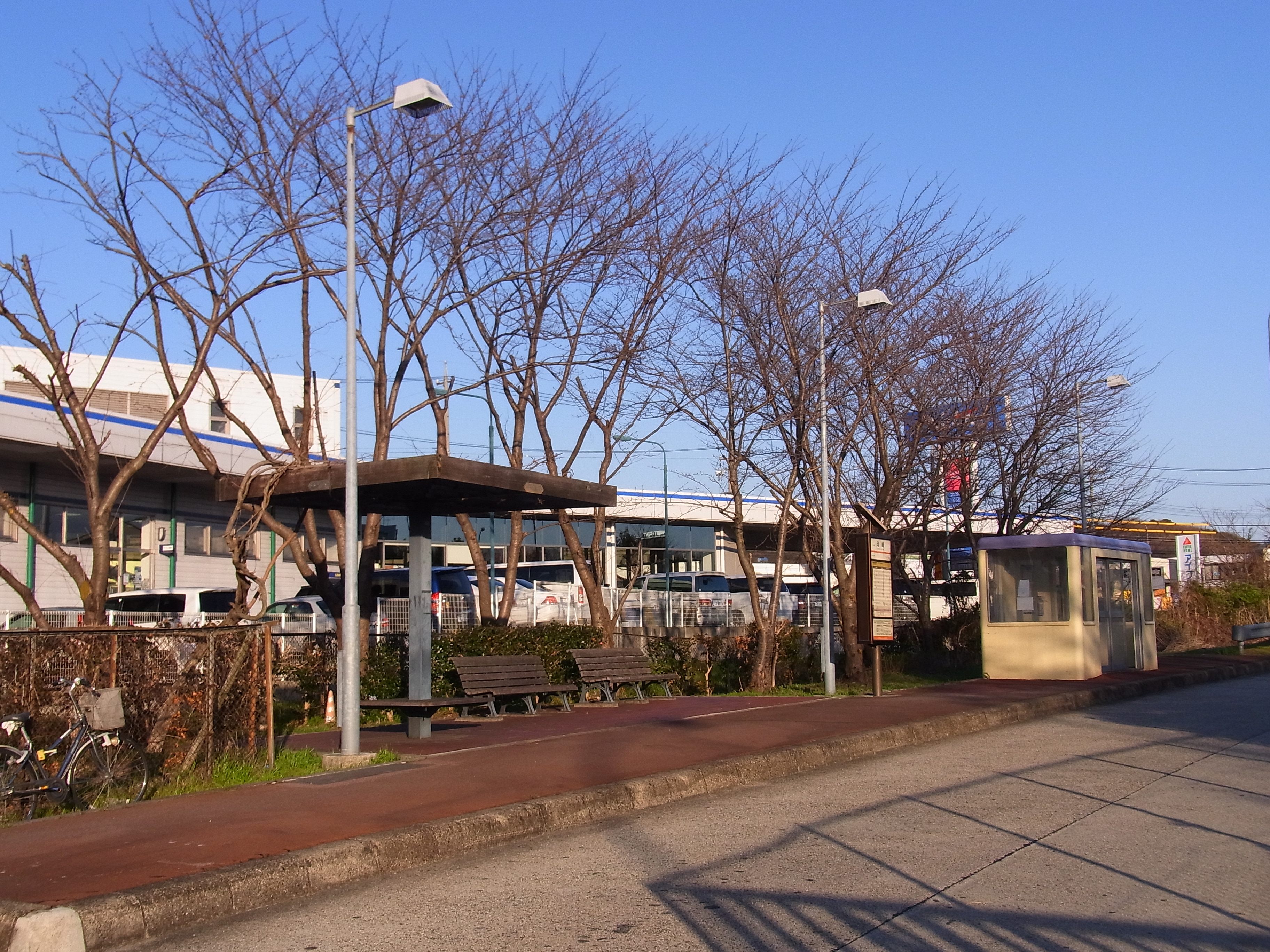 Tomei Okazaki Bus stop in Okazaki Interchange, Tomei Expressway.